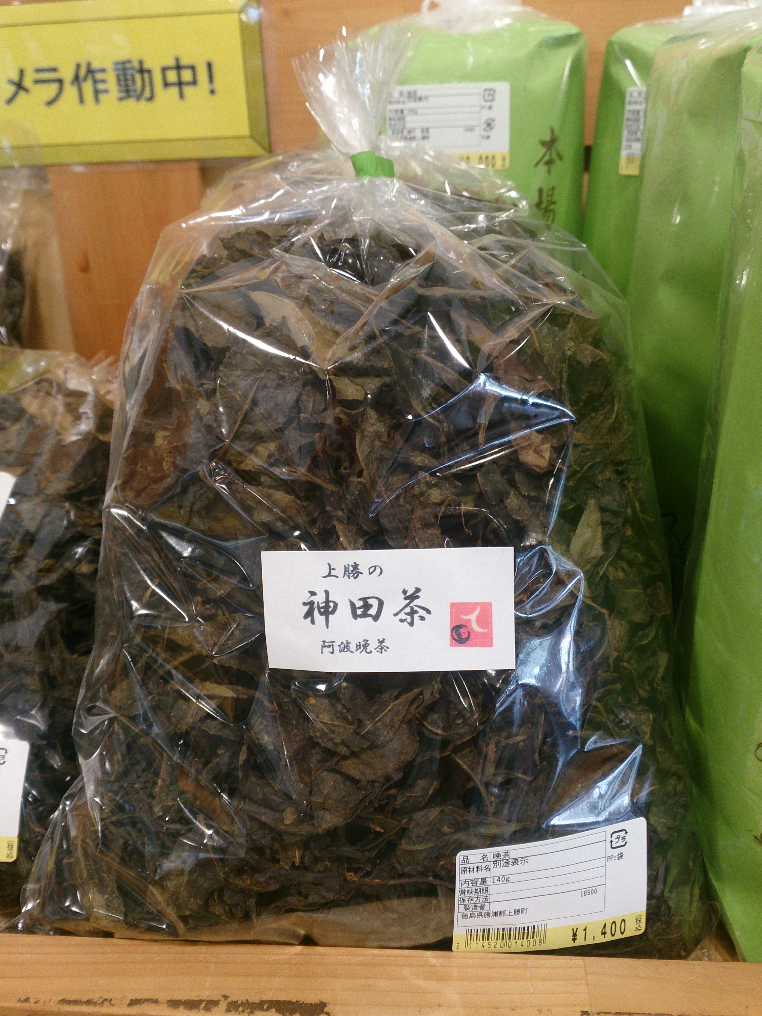 Awabancha, Fermented tea in Tokushima Prefecture, Japan